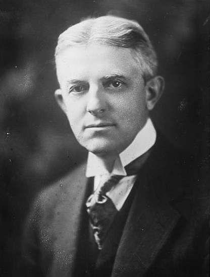 George R. Lunn, U.S. Representative from New York